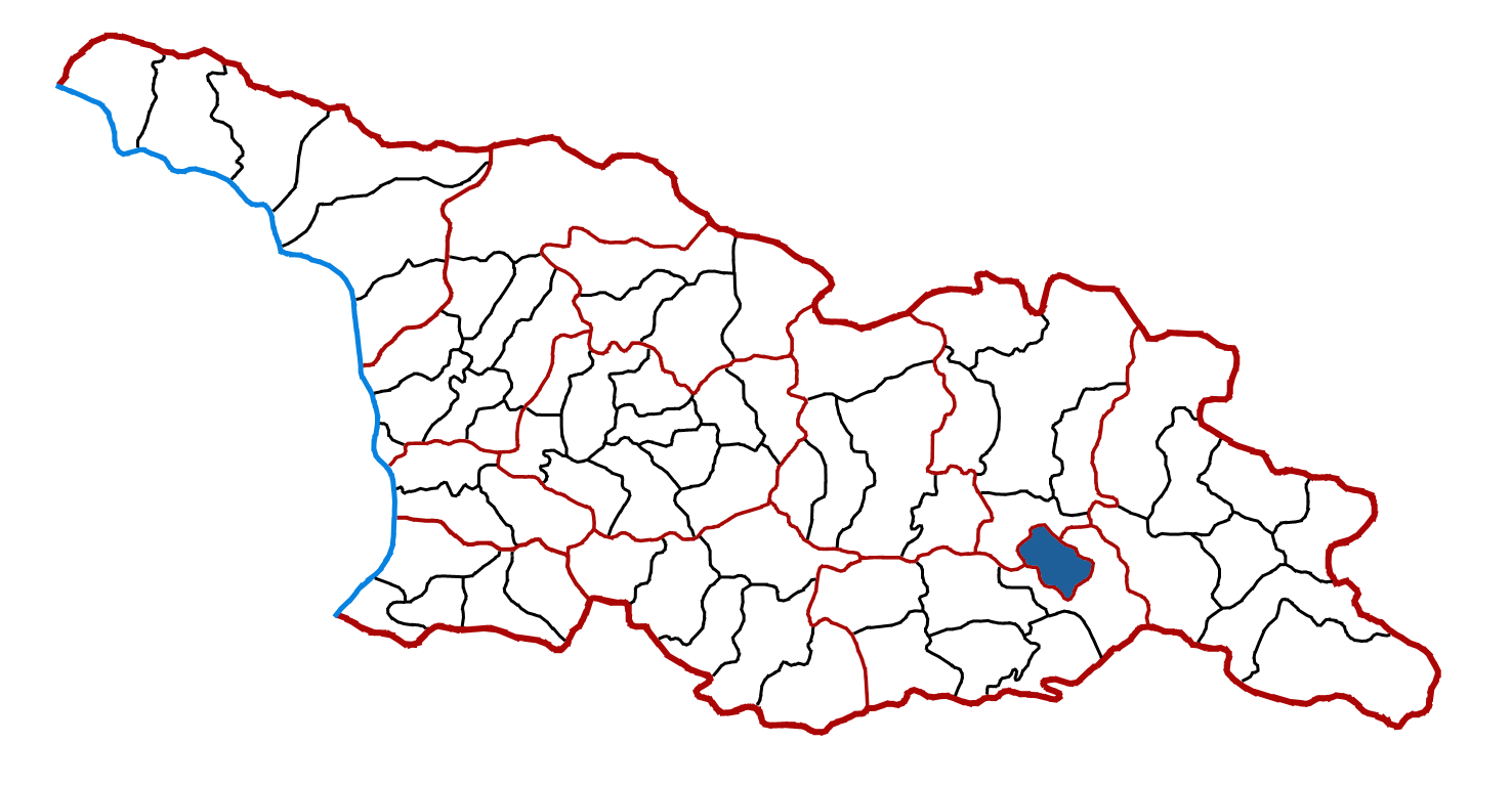 Location of Tbilisi in Georgia